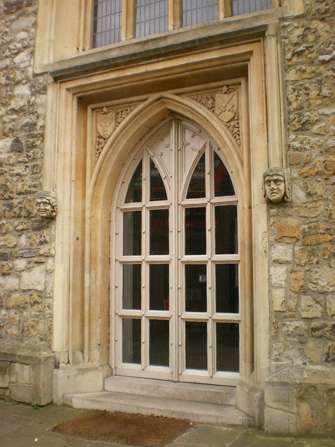 The Parish Church of St Mary the Virgin, Putney, Window